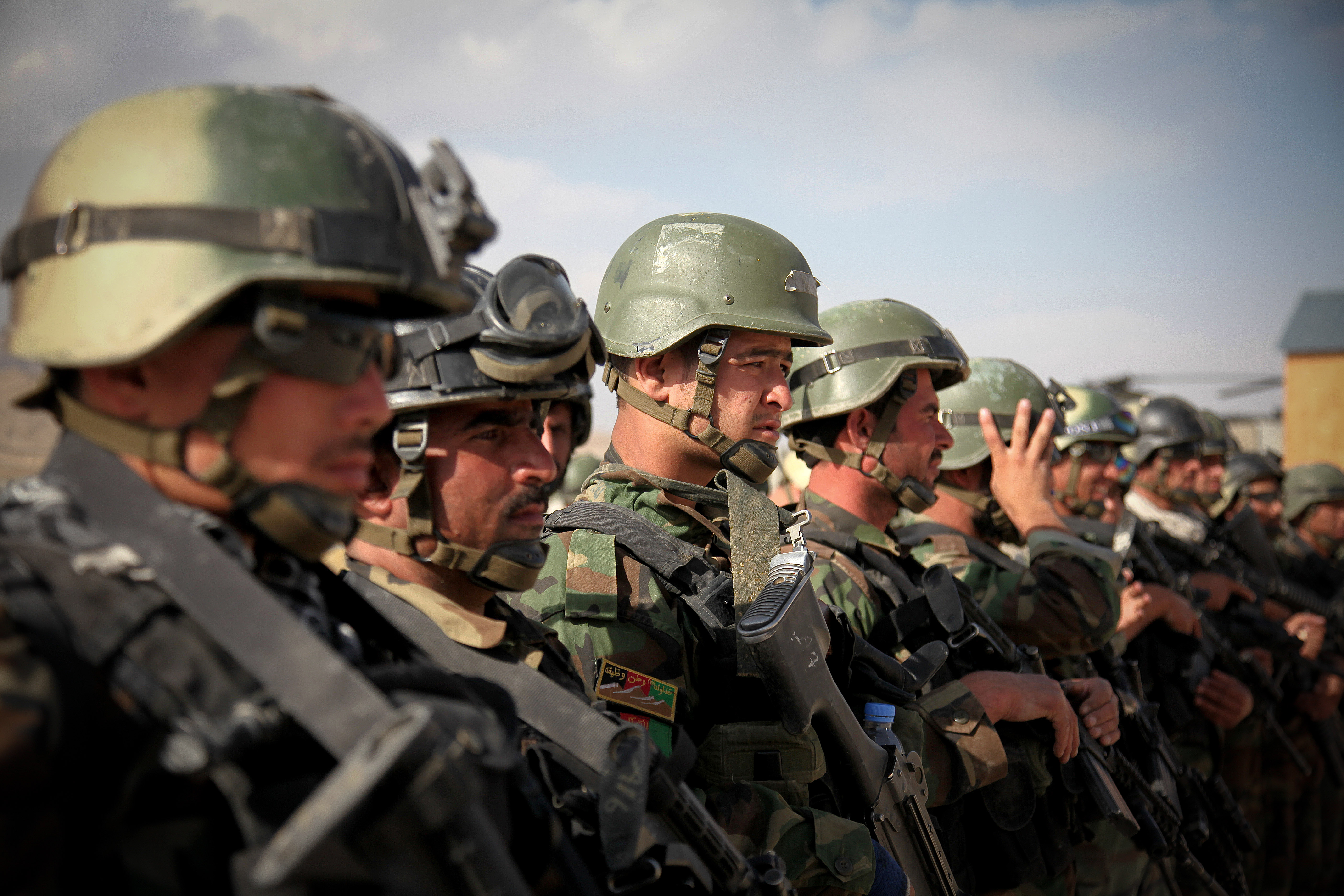 VIRIN: 091011-A-8560C-036 Afghan commandos prepare for an air assault mission at Forward Operation Base Airborne, Afghanistan, Sept. 28, 2009. (U.S. Army photo by Sgt. Teddy Wade/Released)